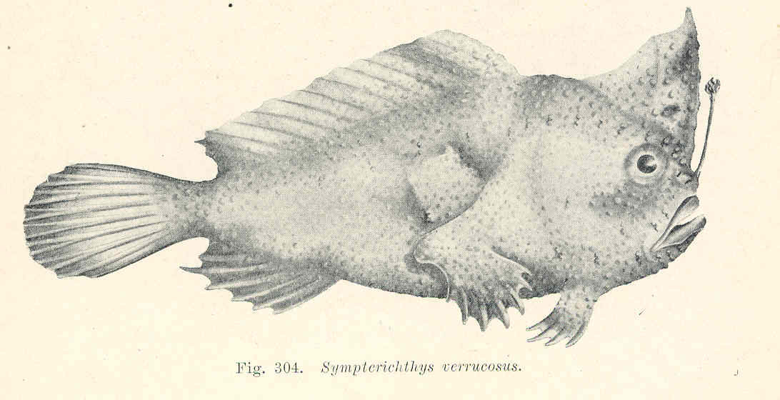 Sympterichthys verrucosus Subject: Antennariidae, Anglerfishes, Brachionichthyidae Tag: Fish